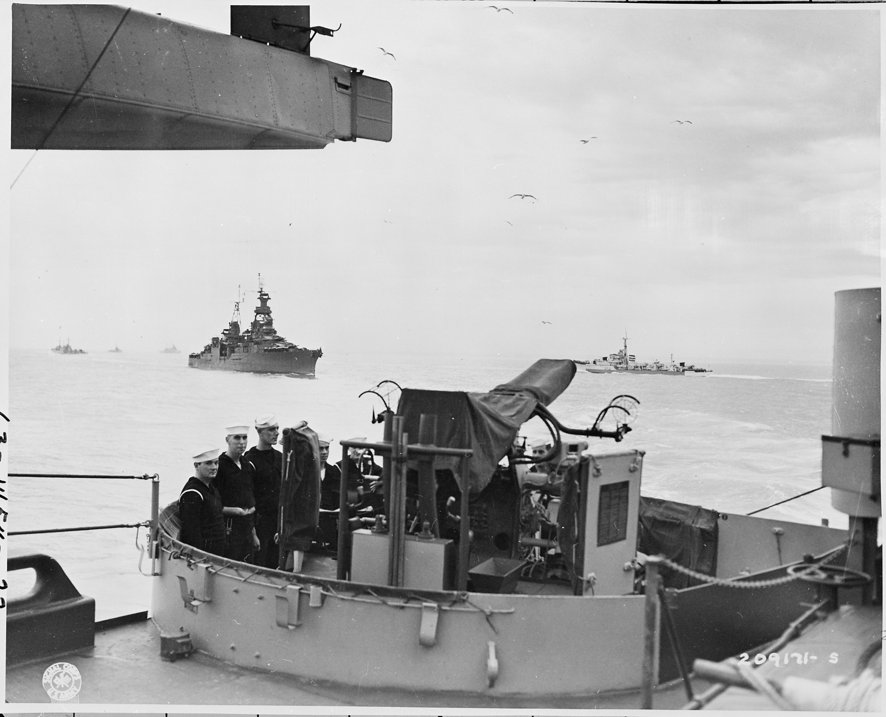 General notes: The destroyer in the background is HMS Zodiac (R54).